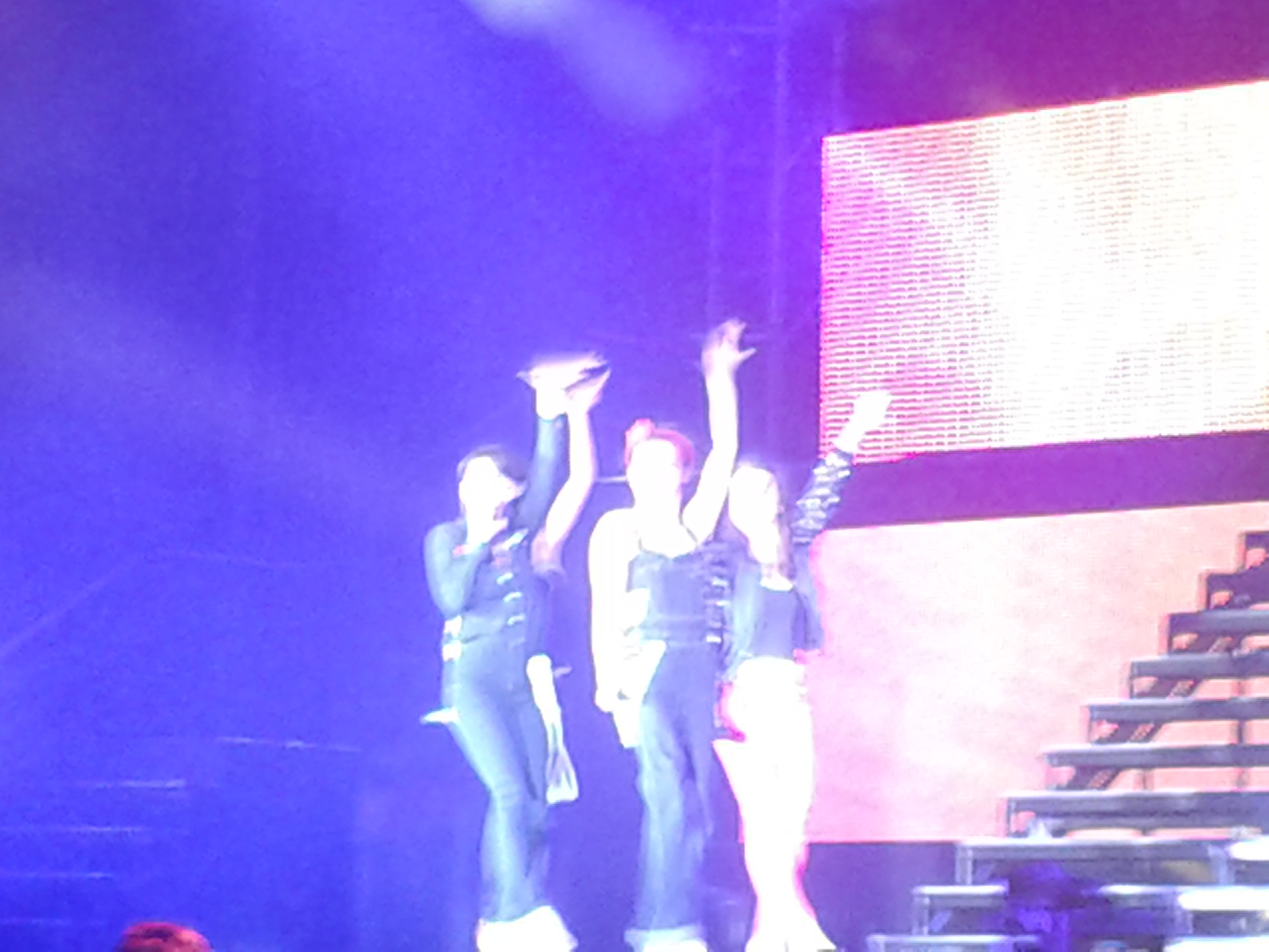 B*Witched performing live in Glasgow on 7 May 2013 as part of The Big Reunion arena tour.